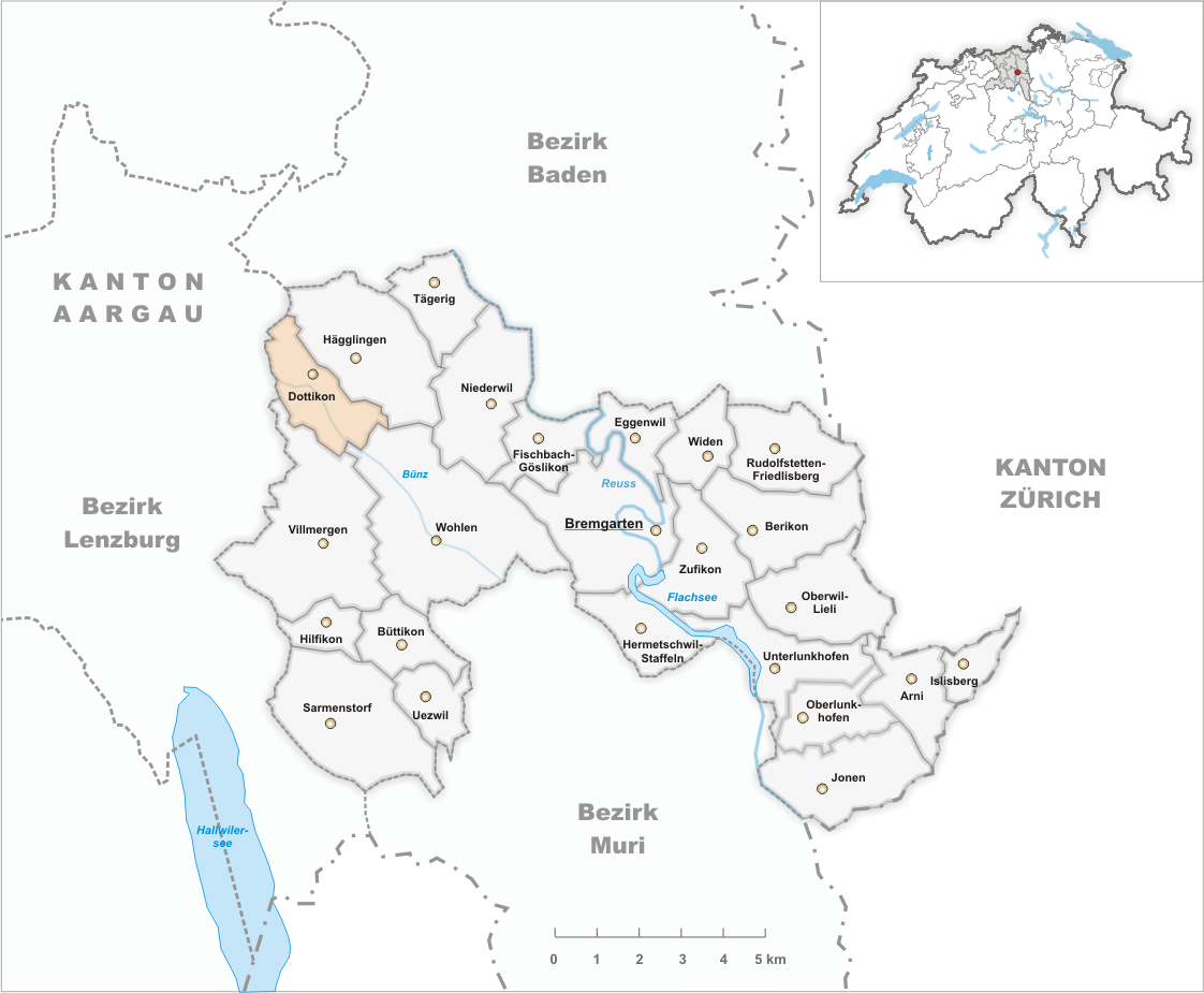 Municipality Dottikon